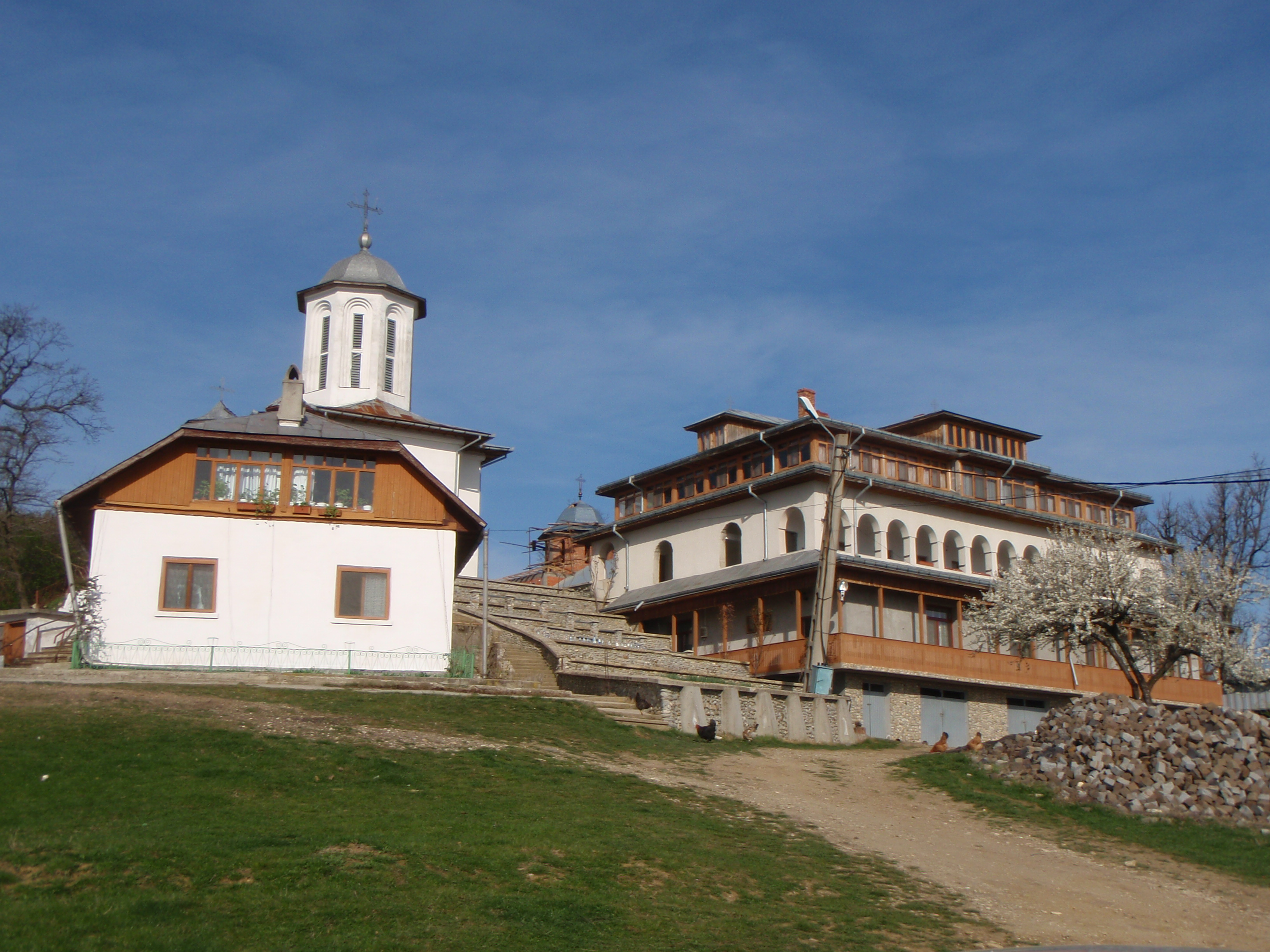 Dealu Mare Monastery, located near Borăscu village, Gorj county, Romania